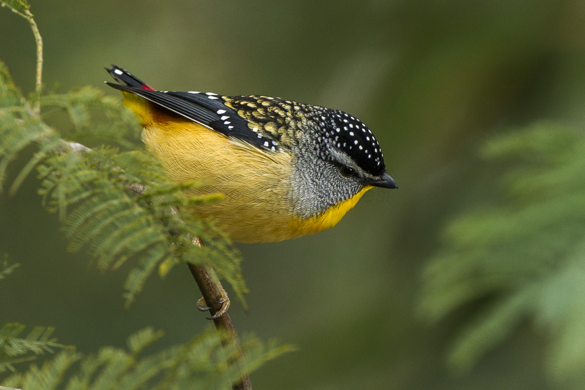 Spotted Pardalote - Melbourne - Victoria_S4E1109